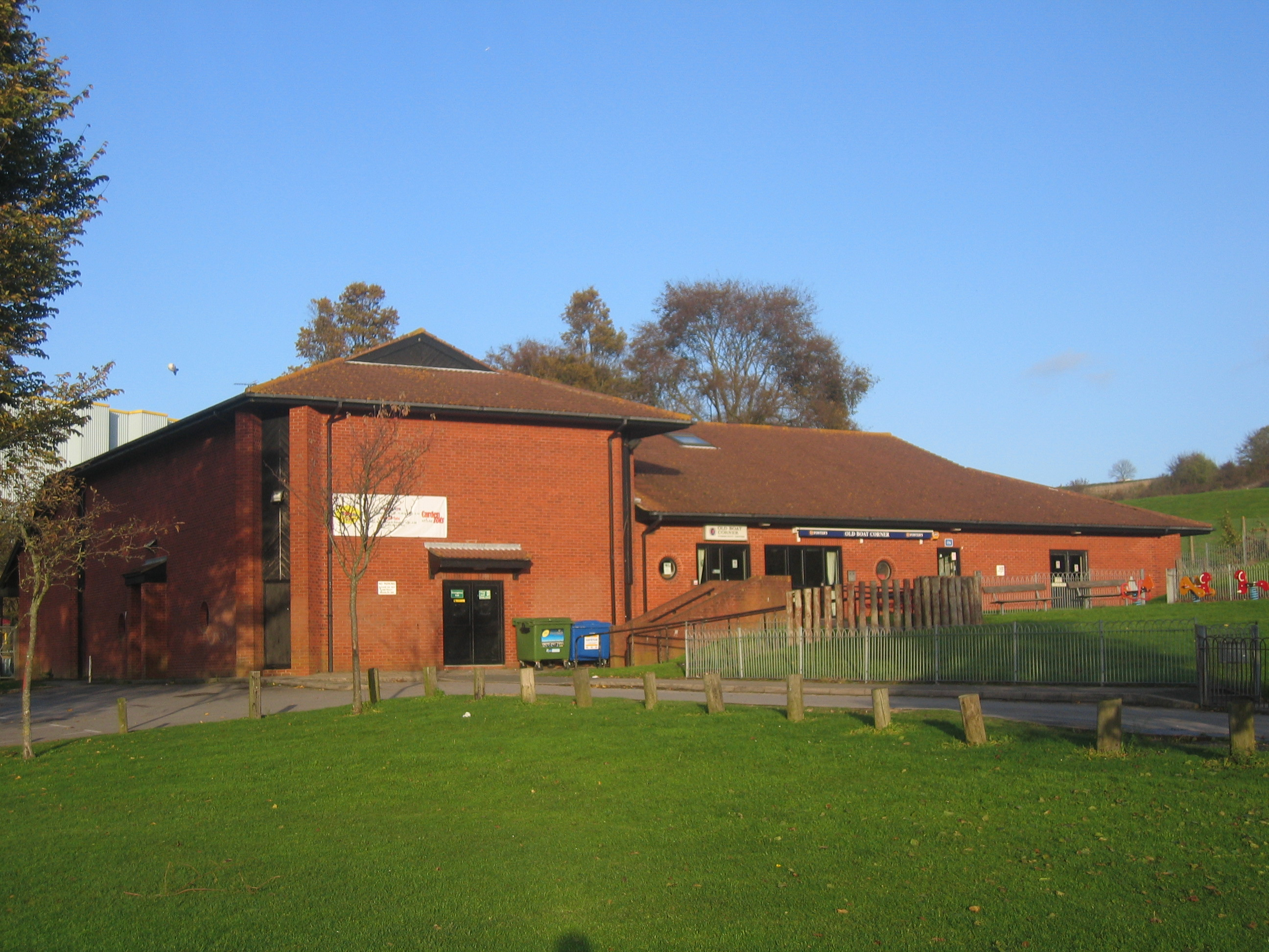 Old Boat Corner community centre, situated in Carden Park and built by Asda as part of the redevlopment of Hollingbury Industrial Estate in 1987.